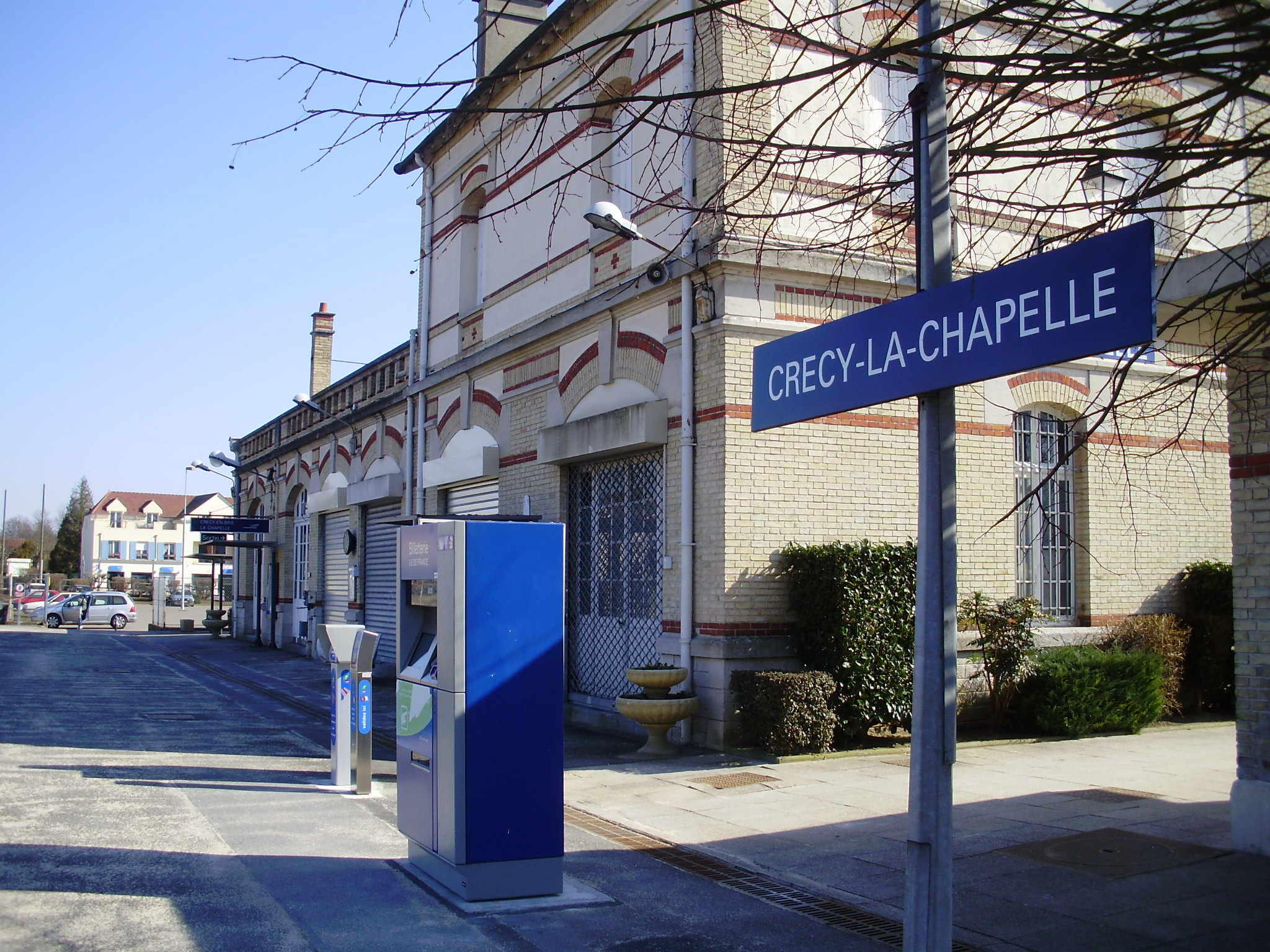 Crécy-la-Chapelle station - platform, Seine-et-Marne, France